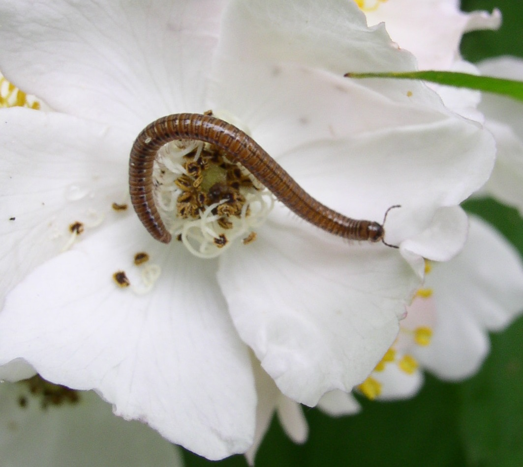 Millipede, family Parajulidae. Penypack Restoration Trust, Montgomery County, Pennsylvania, USA.